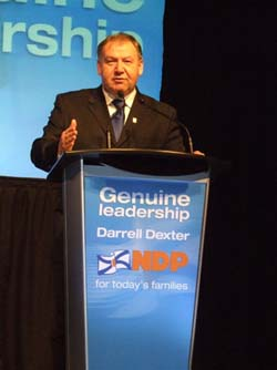 Nova Scotia New Democratic Party leader Darrell Dexter at an NDP meeting in Halifax, Nova Scotia